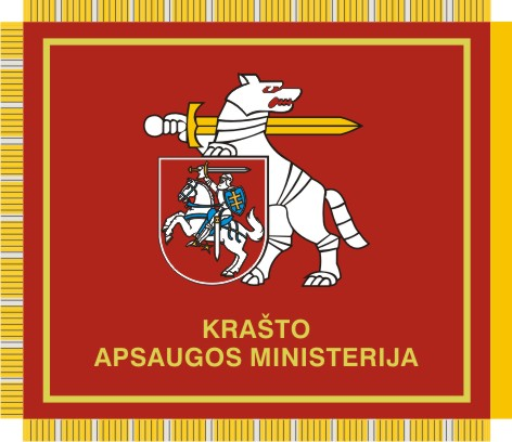 Flag of the Ministry of National Defence